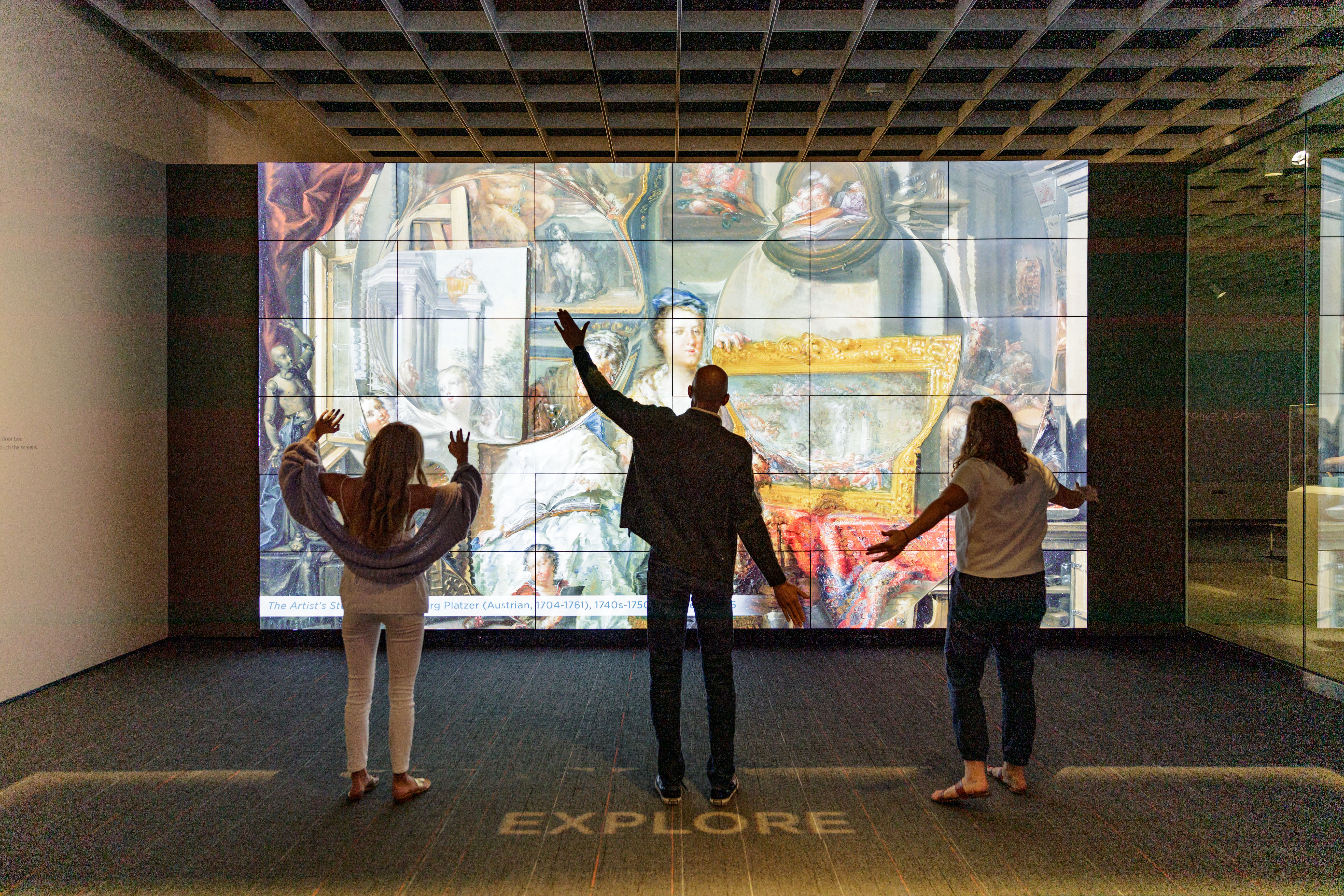 View of The Cleveland Museum of Art's ArtLens Exhibition. Objects within glass display cases. People in the background interacting with gesture-sensing projections that respond seamlessly to body movement and facial recognition as you approach, immersing visitors in the experience.